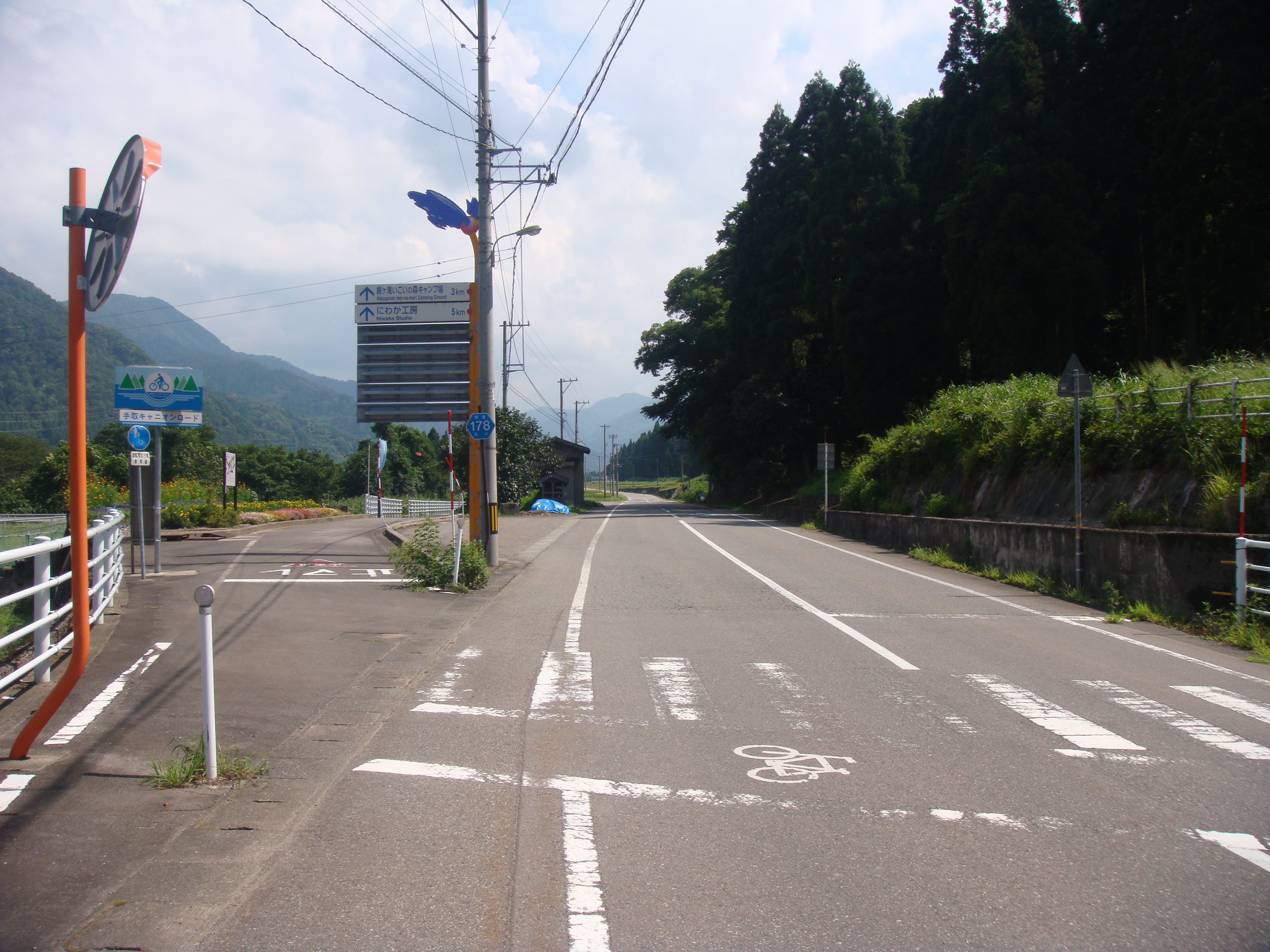 Ishikawa Prefectural Road Route 178 & Ishikawa Prefectural Road Route 302（Tedori Canyon Road） Place - Kamashimizu-machi,Hakusan City,Ishikawa Prefecture,Japan Date - August 27, 2010 Format - JPEG, 3648x2736pixel, 24bit colors Photographer - NALA Wiki (talk)